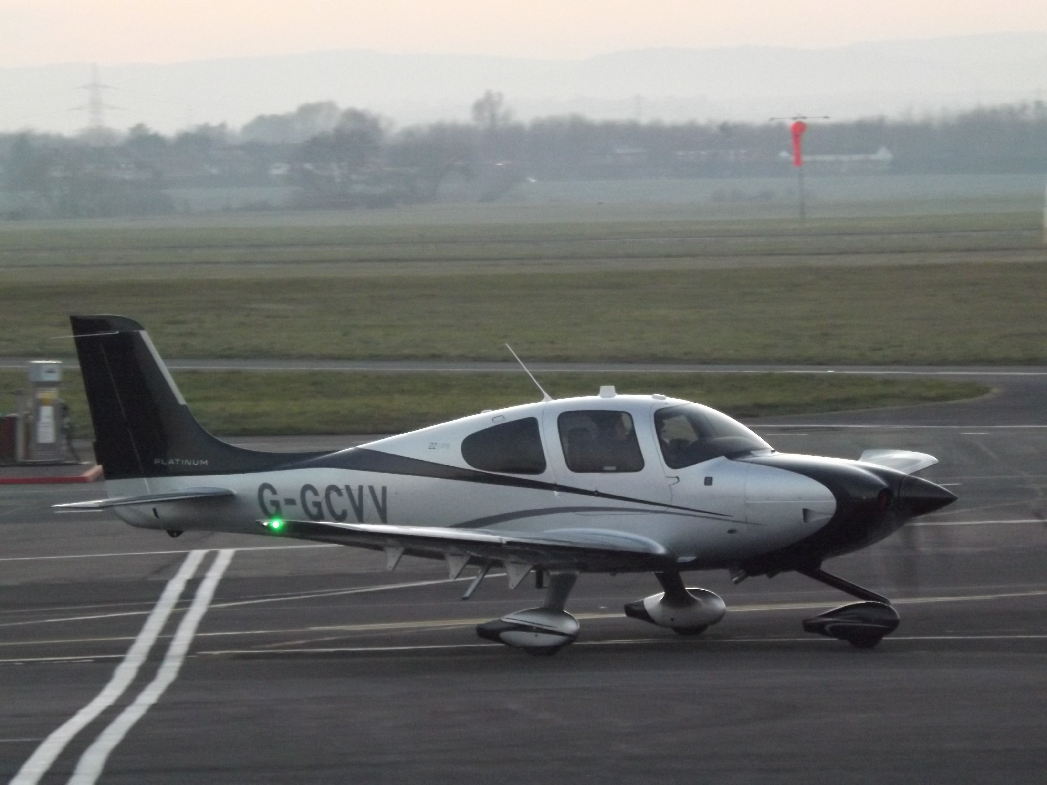 At Gloucestershire Airport.